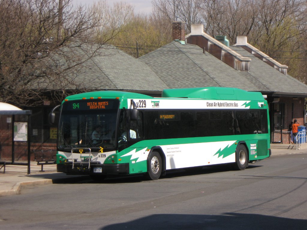 Transport of Rockland #229 loads Route 94 customers in Spring Valley, NY